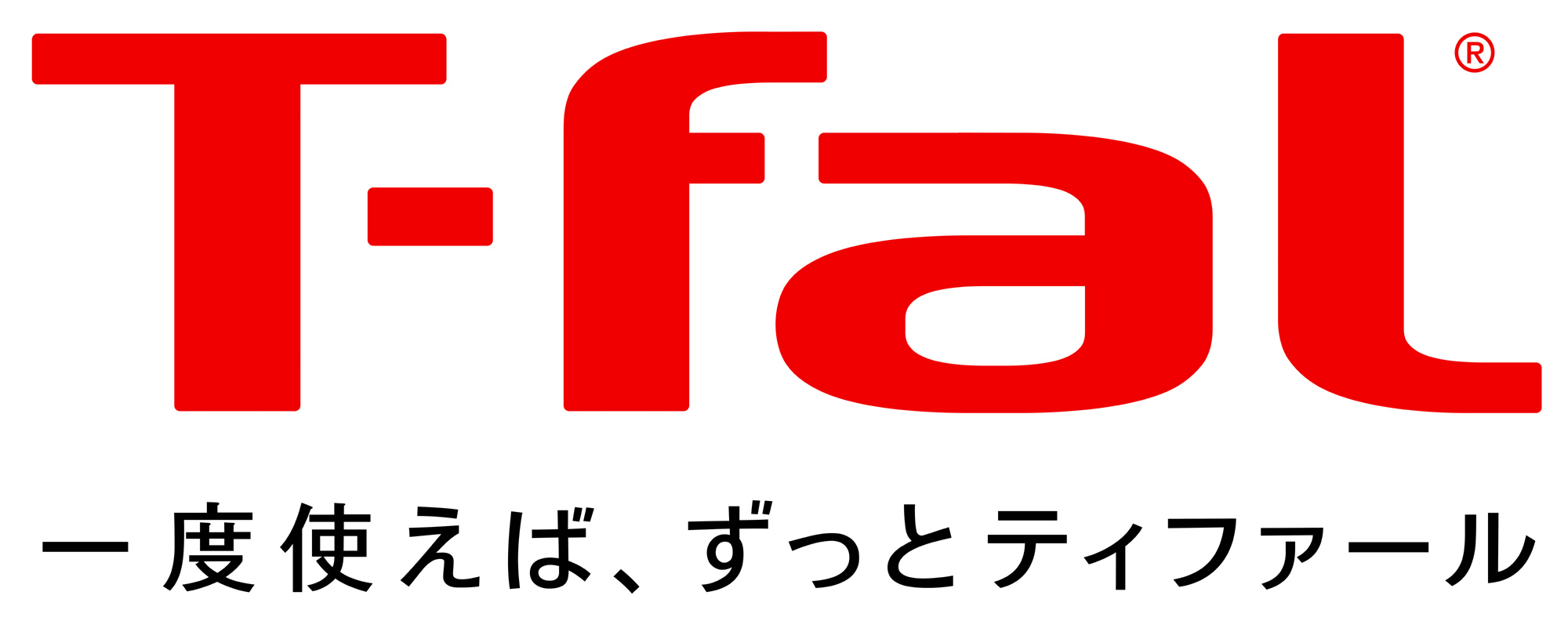 T-fal logo in Japan